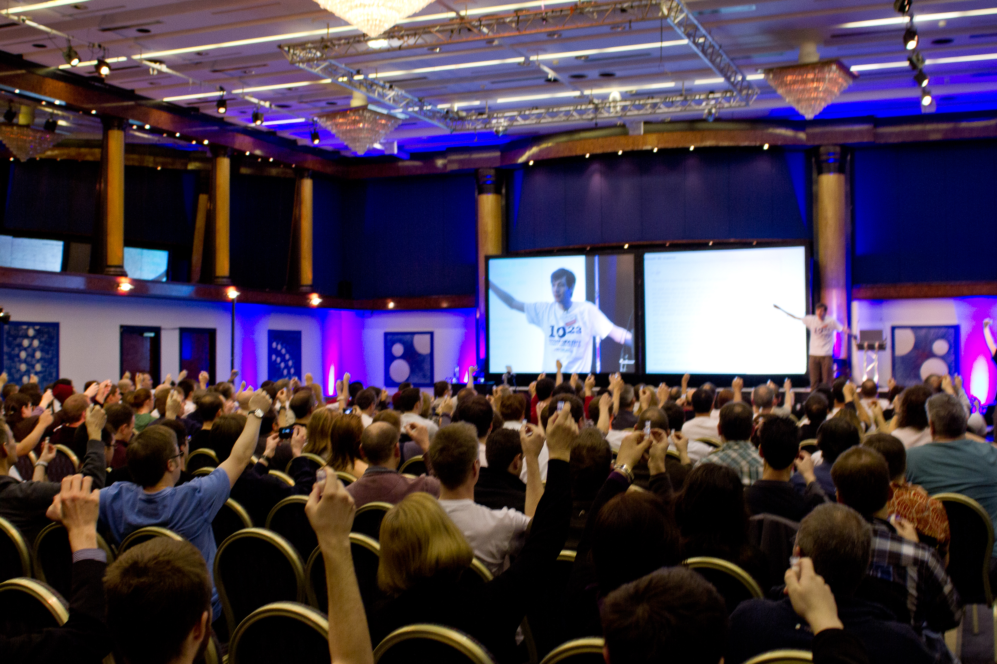 Michael Marshall introduced the 10:23 campaign and the QED conference in Manchester in February 2011. The audience then joined in with an overdose of homeopathic tablets